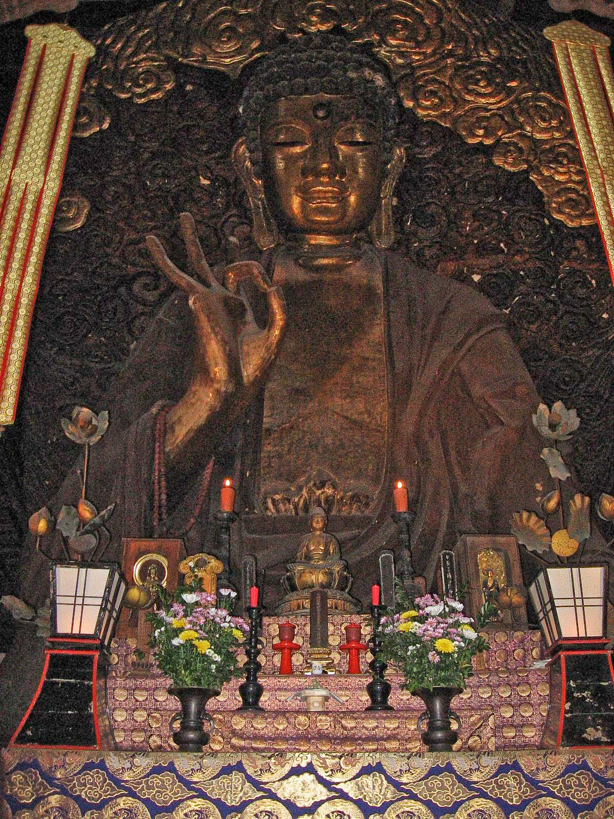 This is a picture of the Gifu Great Buddha that I took in March 2006.